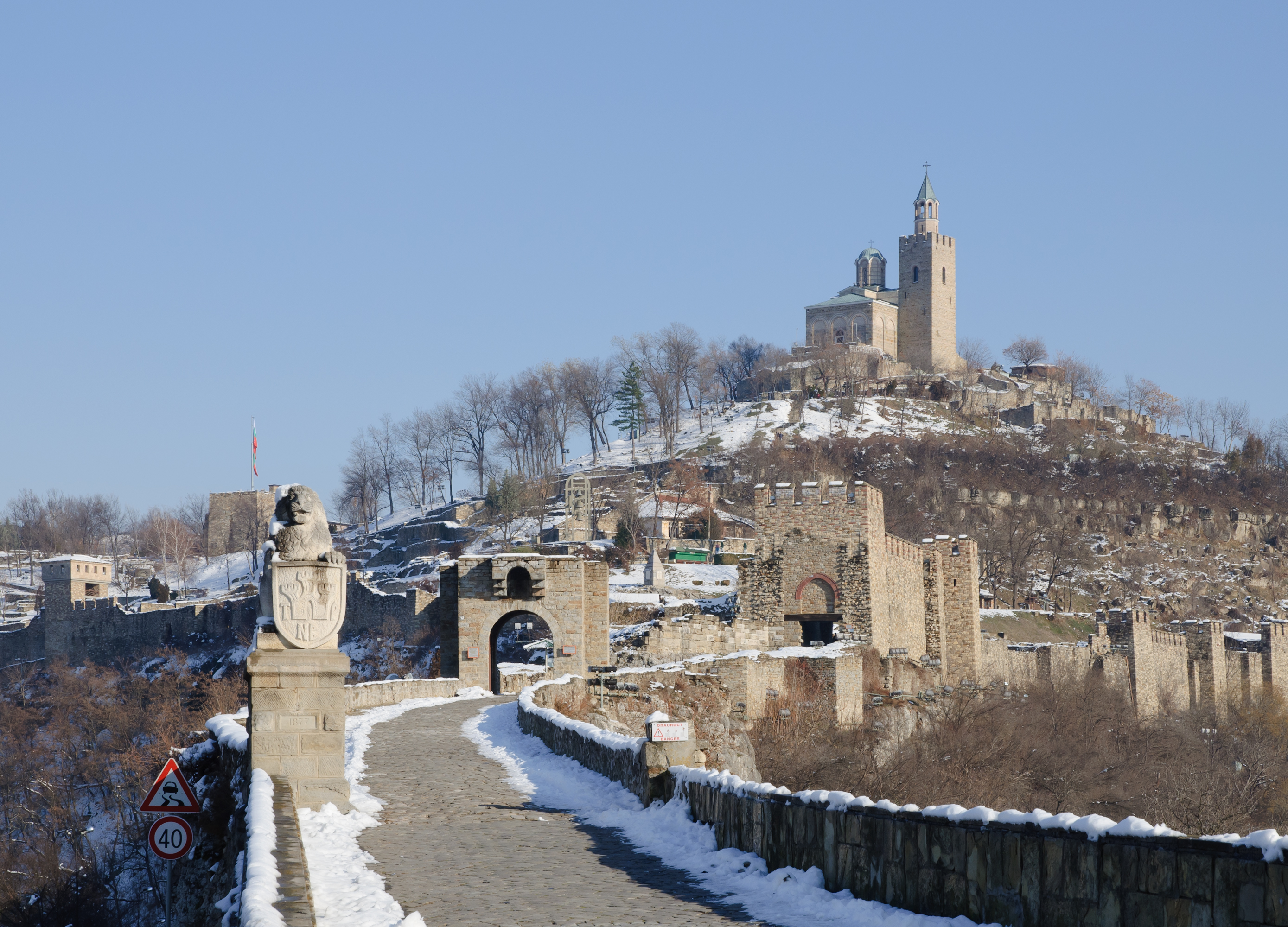 The main entrance of Tsarevets stronghold with the old Patriarchal Cathedral in the background - Veliko Tarnovo, Bulgaria.